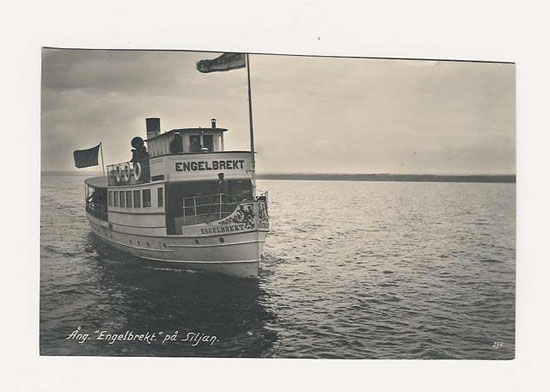 S/S Engelbrekt sailing on Lake Siljan, Sweden in 1941